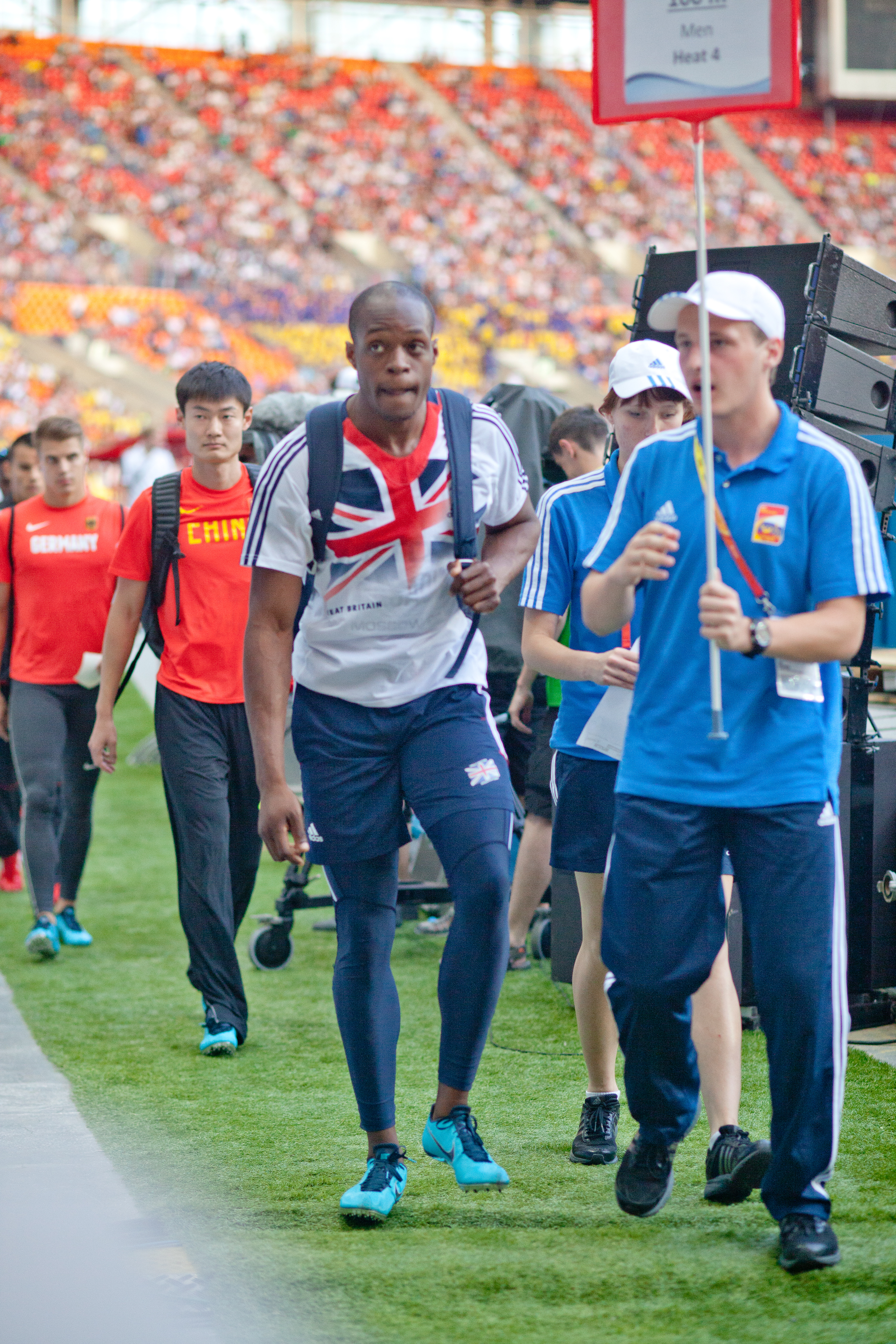 James Dasaolu during 2013 World Championships in Athletics in Moscow.